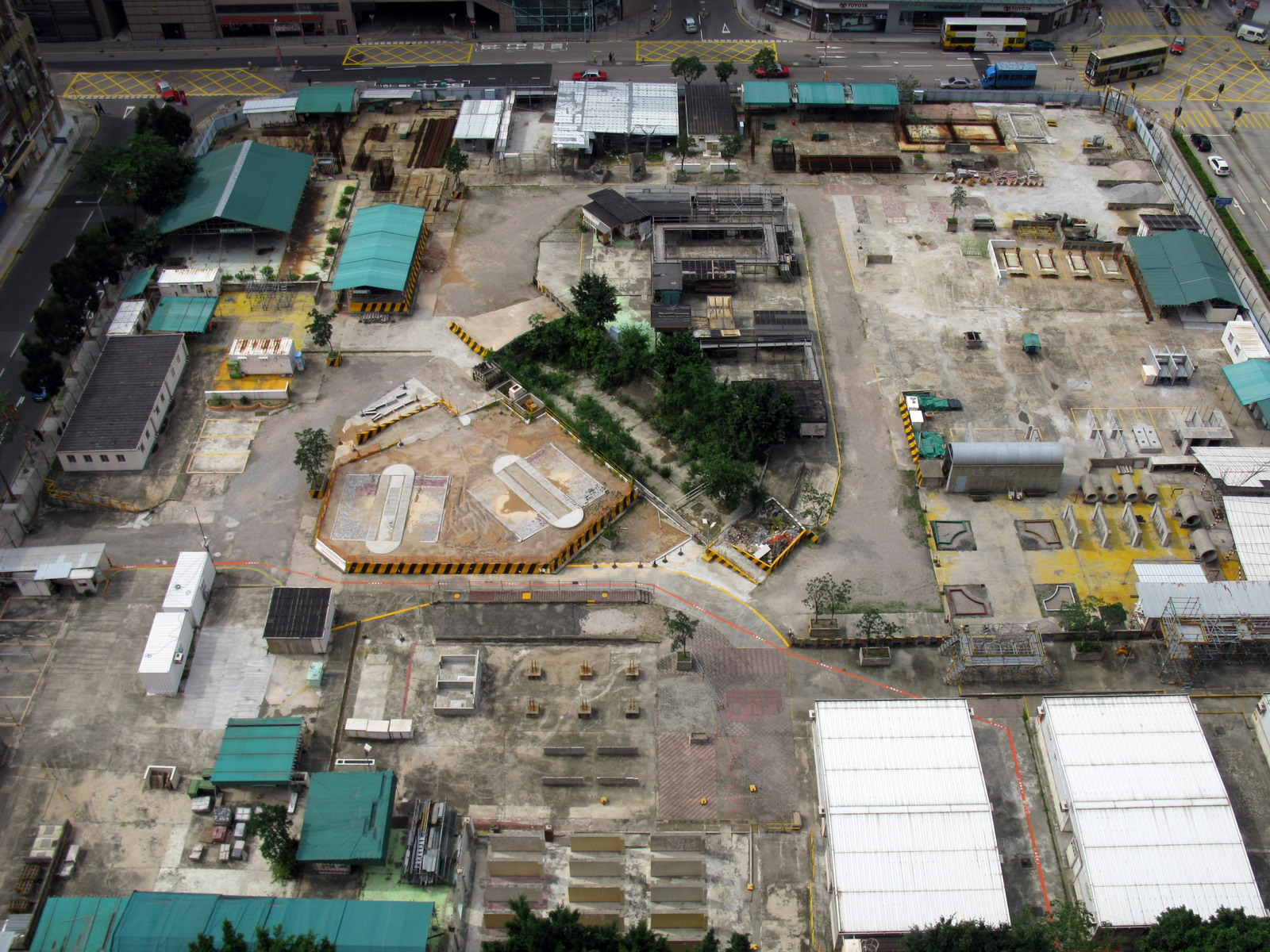 CICTA Sheung Yuet Road Training Ground (demolished)